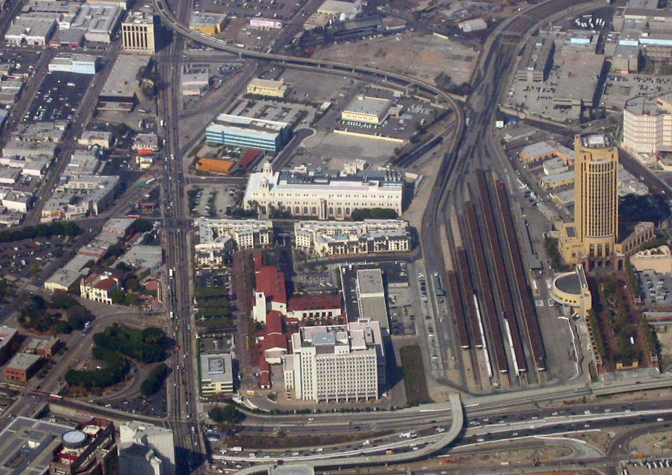 Los Angeles Union Passenger Terminal - LAUPT- (under the red roof), the revitalized passenger transportation hub of Southern California. Opened on May 3, 1939 to serve Union Pacific, Southern Pacific, and Santa Fe railroads. It now serves Amtrak, Metrolink, light rail, subway, and bus lines. New commercial and residential construction surrounds the station, but it remains as impressive to see from ground level as from the air.